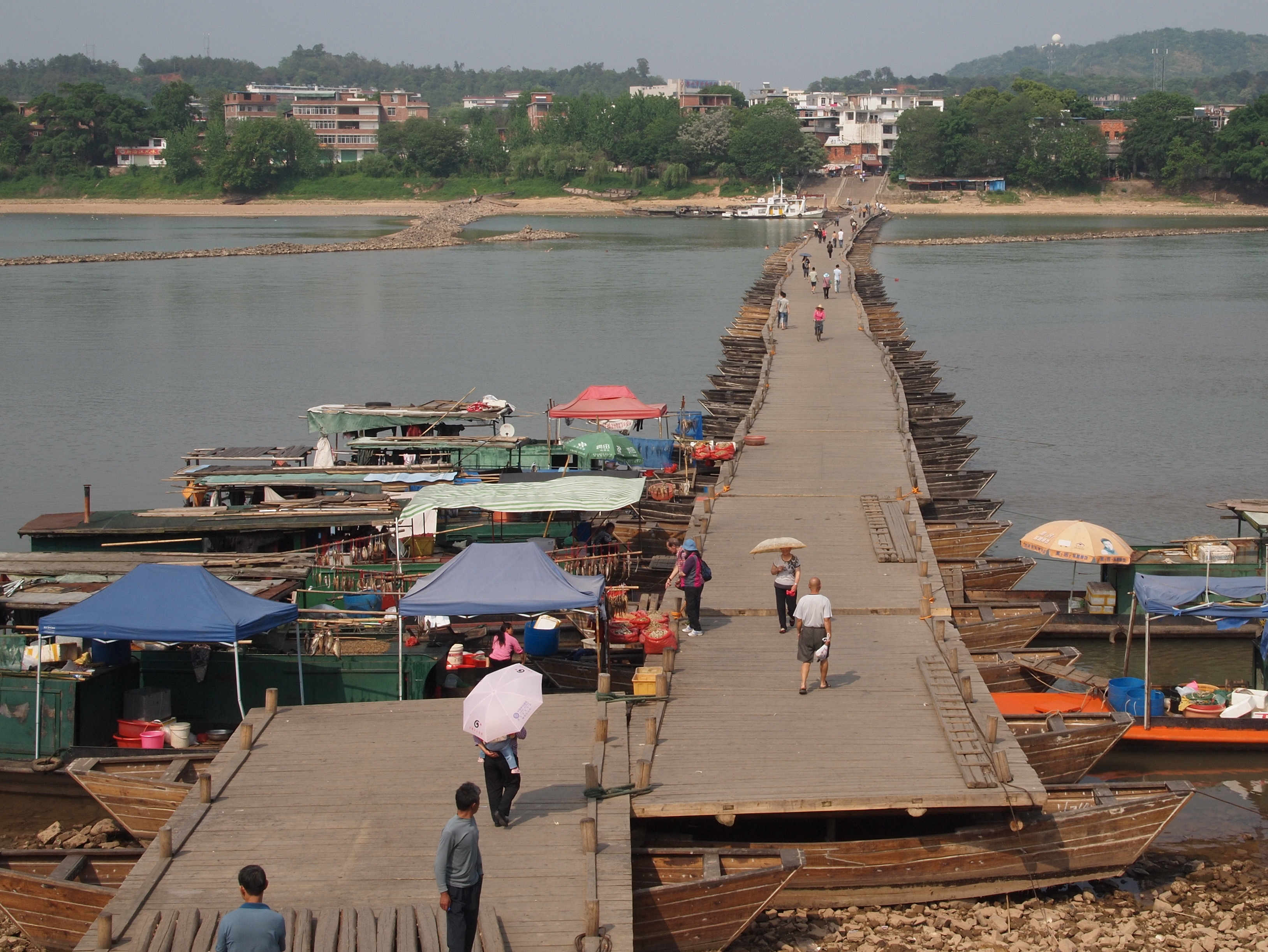 The Jianchunmen Pontoon Bridge (建春門浮橋), or Dongjin Bridge (東津橋) in Ganzhou metropolitan area